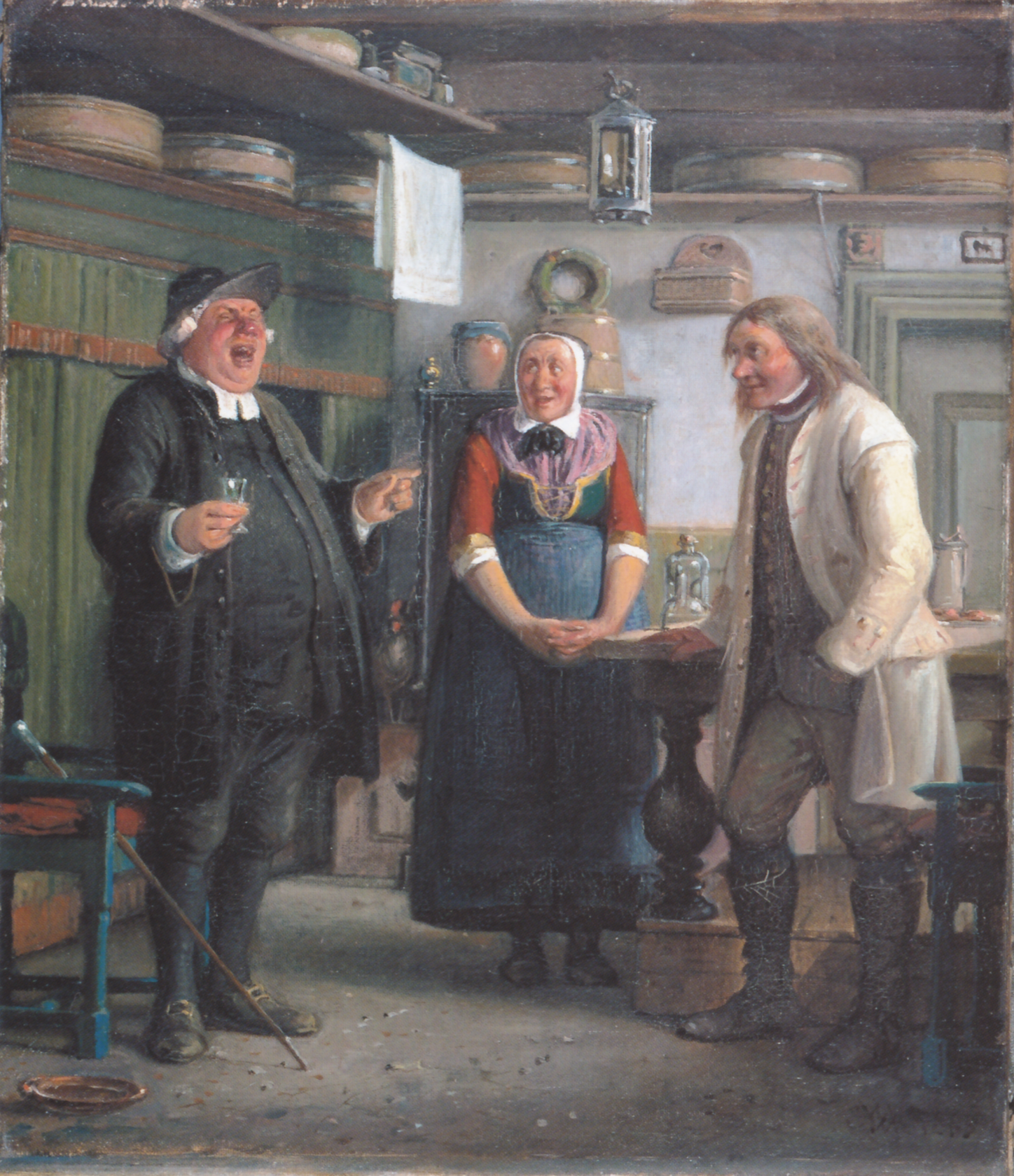 An incident from the Ludvig Holberg comedy, Erasmus Montanus (Act 1, scene 4). Per, the deacon, is offered a glass of akvavit and it prompts him to sing.